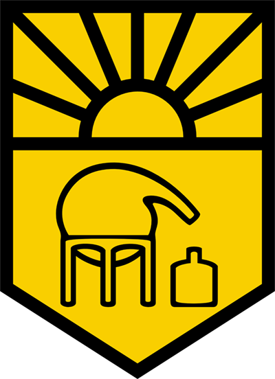 Høiskolens Chemikerforenings våpen